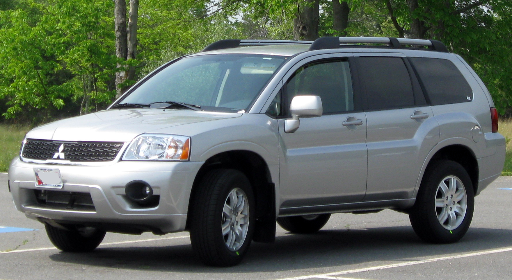 Mitsubishi Endeavor photographed in Centreville, Virginia, USA.